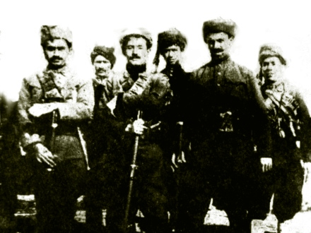 Leaders of Ararat rebellion: From left to right: Sipkanlı Halis Bey (Halis Öztürk, deputy of 9th, 10th, 11th Parliament from Ağrı), Ihsan Nuri Pasha, Hasenanlı Ferzende BeyTürkçe: Ağrı Dağı İsyanı'nın önderleri: Soldan sağa: Sipkanlı Halis Bey (Halis Öztürk, DP döneminde IX., X. ve XI. dönemleri Ağrı milletvekilli), İhsan Nuri Paşa, Hasenanlı Ferzende Bey[1]